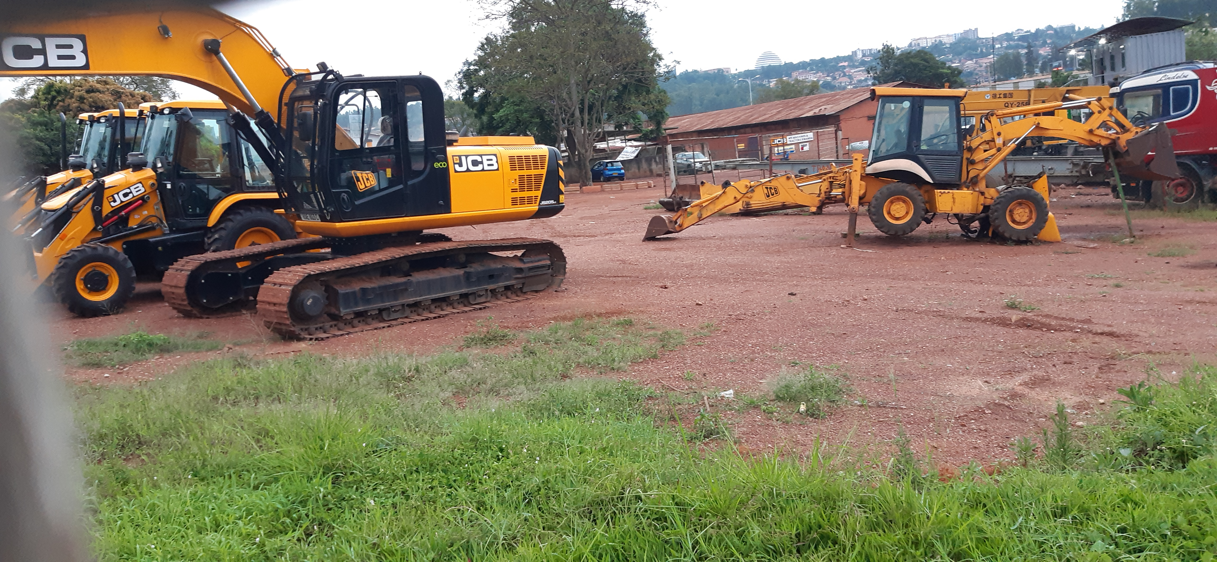 Caterpillar parking at Gikondo This is an image with the theme "Africa on the Move or Transport" from: Rwanda